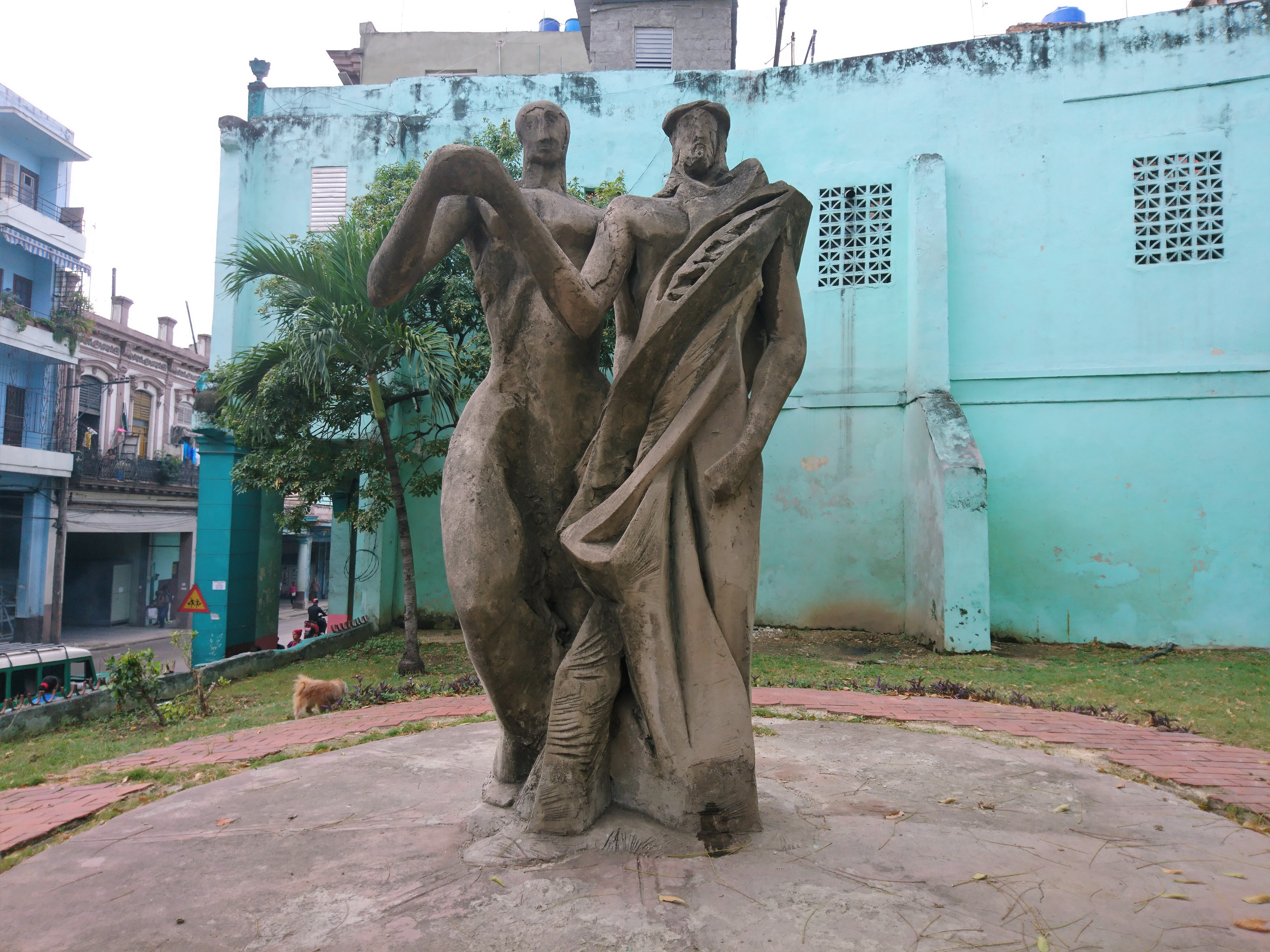 Memorial to the Arab Immigrants in Los Sitios, Havana, Cuba